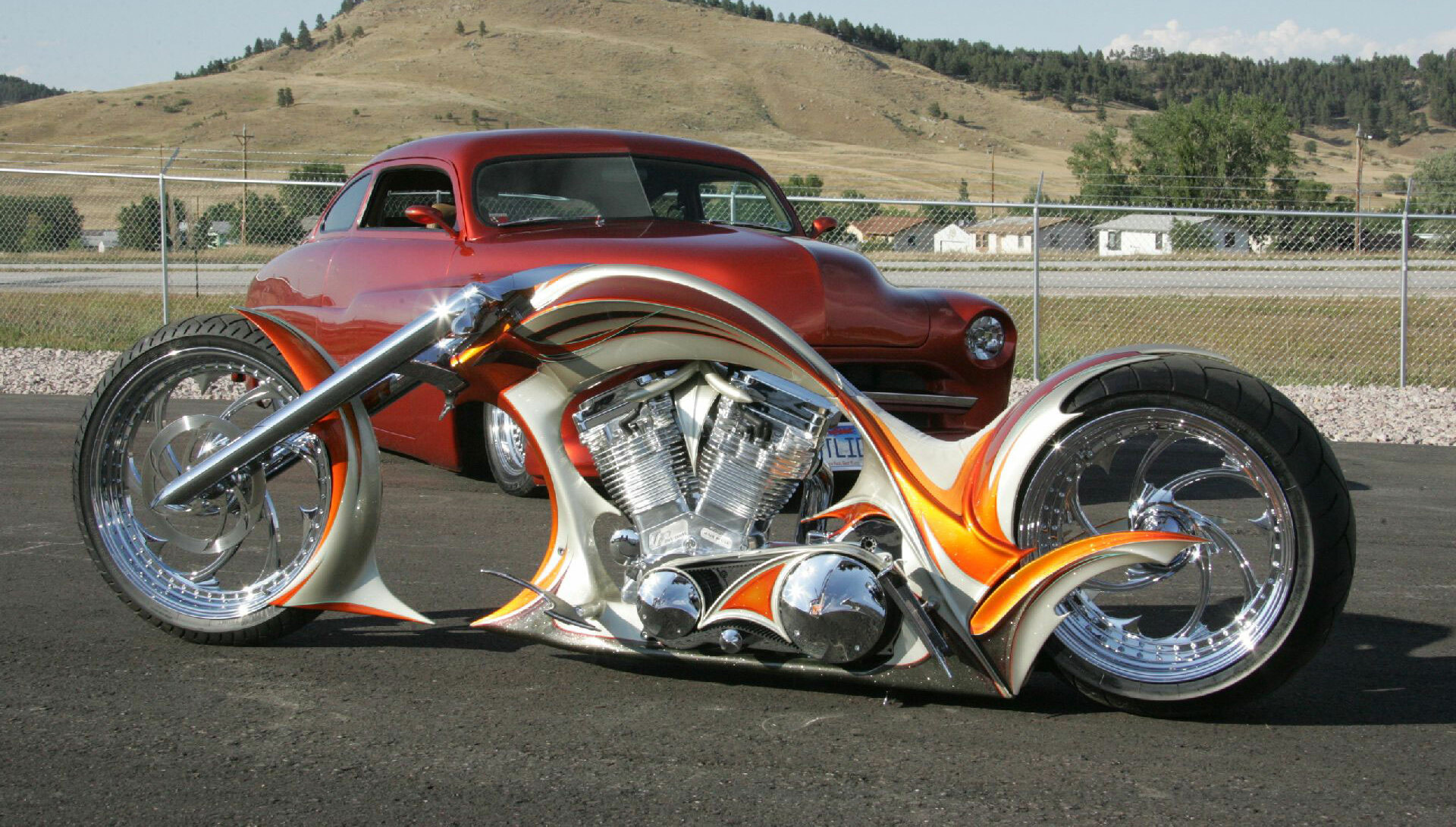 Thunderbike Spectacula - 2nd place @ AMD World Championship 2006